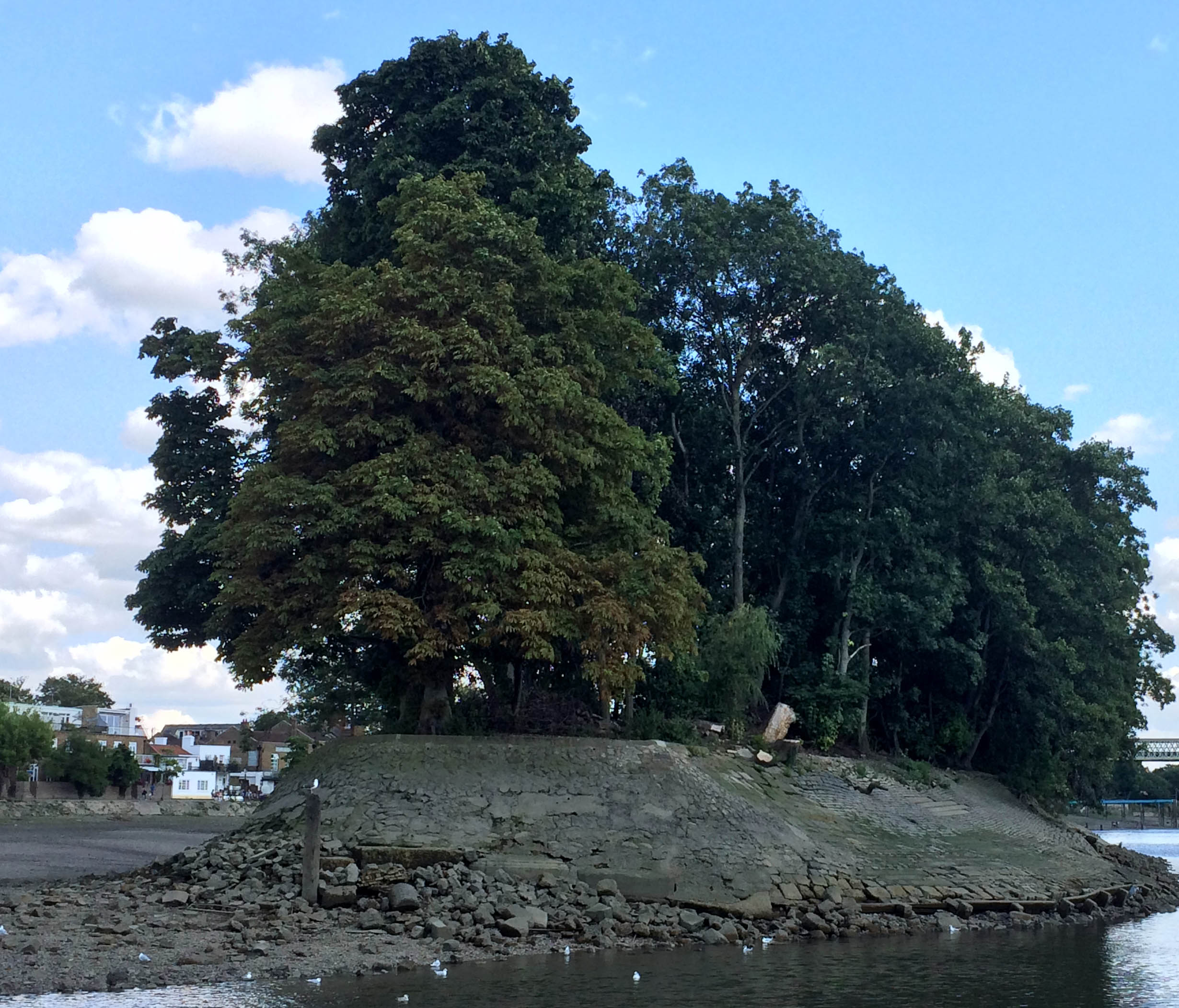 Olivers Island on the River Thames in London